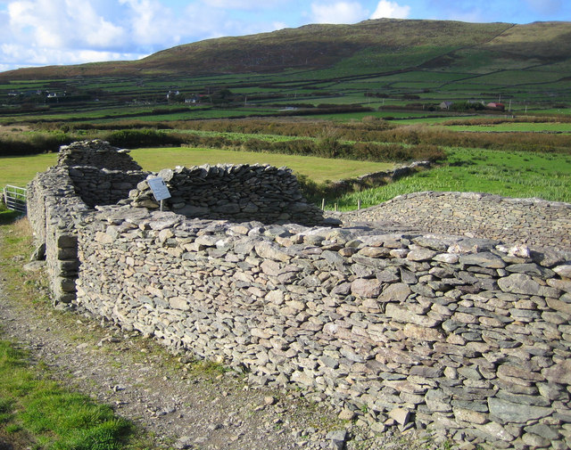 Cill Mhaoilchéadair (Kilmalkedar): The Chancellor's House This is the ruin of the fifteenth century single storey two-roomed dwelling known as The Chancellor's House. Most contemporary houses were built of wood or wattles, and this is one of the few rectangular stone houses of that period to have survived in the west of Ireland. The house belonged to the Chancellor of the Diocese of Ardfert, and possibly indicates the importance of the Parish of Kilmalkedar within that diocese at that time.